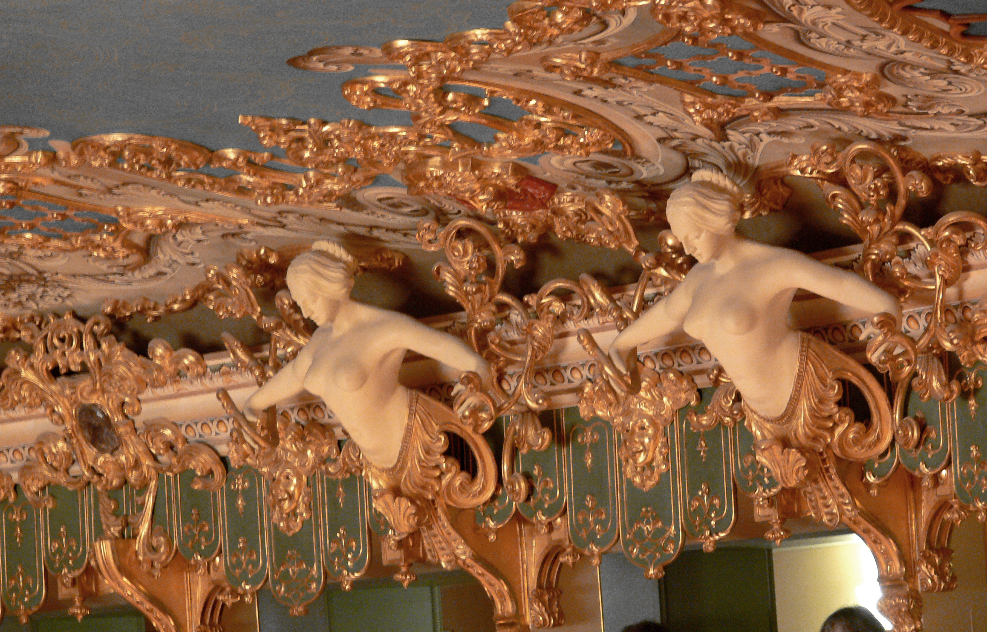 In the auditorium of the Teatro La Fenice, Venice, Italy.